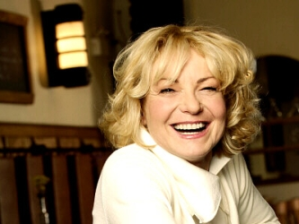 Marjo, francophone Canadian singer-songwriter